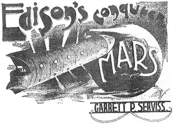 Cover of "Edison's Conquest of Mars", from 1898. Illustration by G. Y. Kauffman.